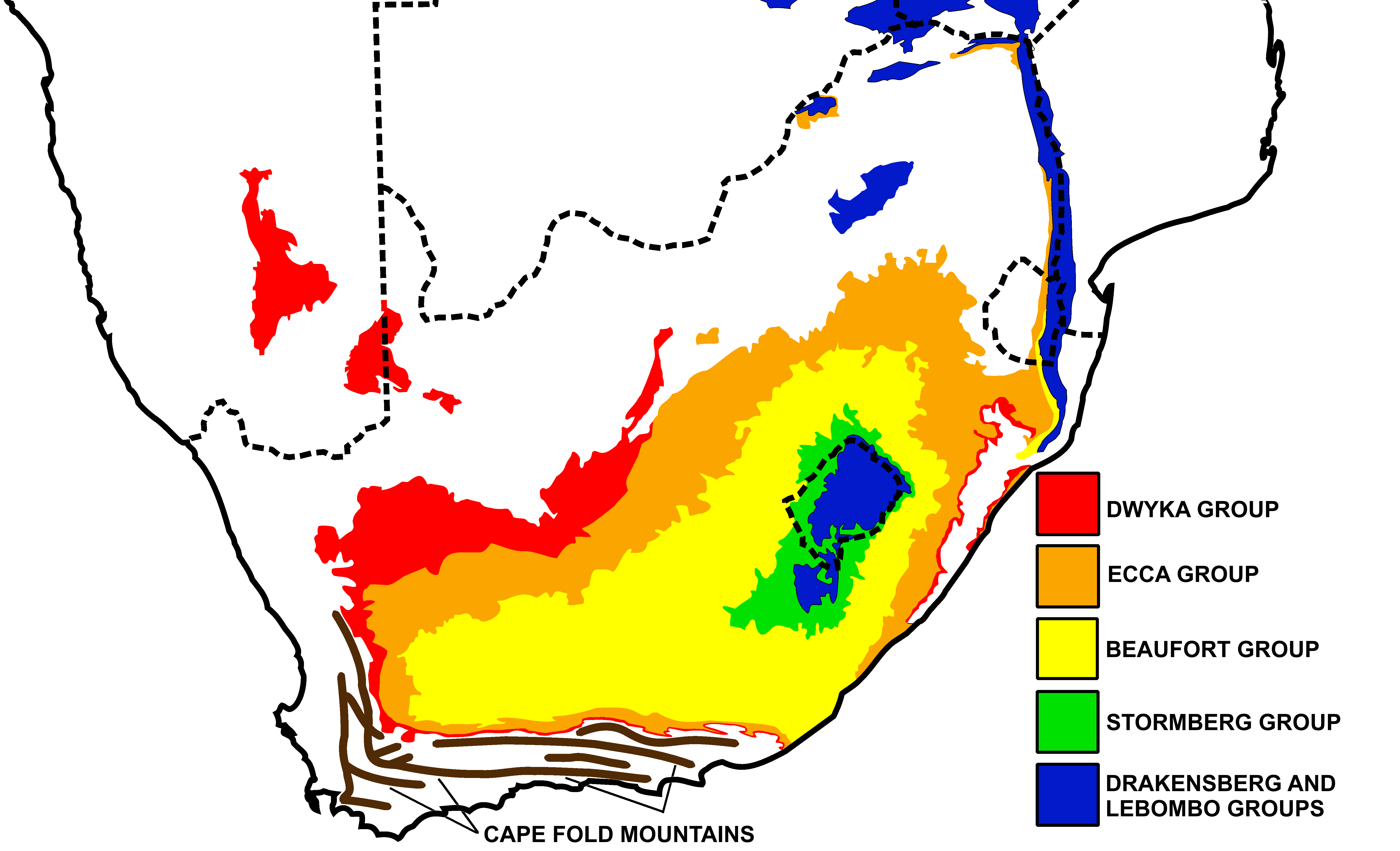 A simplified geological map of the outcrops of Karoo Supergroup rocks in Southern Africa. The Cape Fold Mountains are also diagrammatically shown for reference purposes.